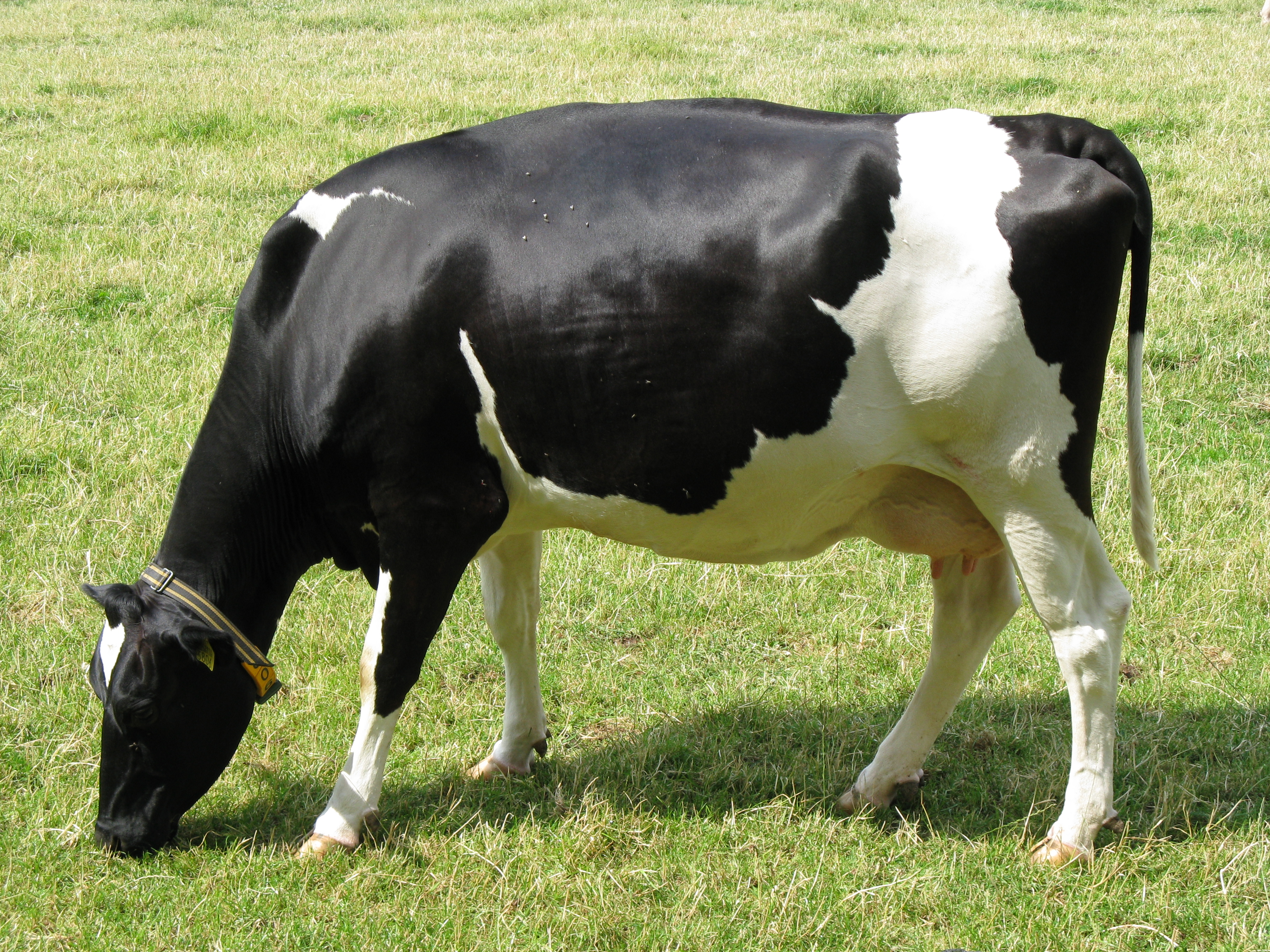 picture of a cow